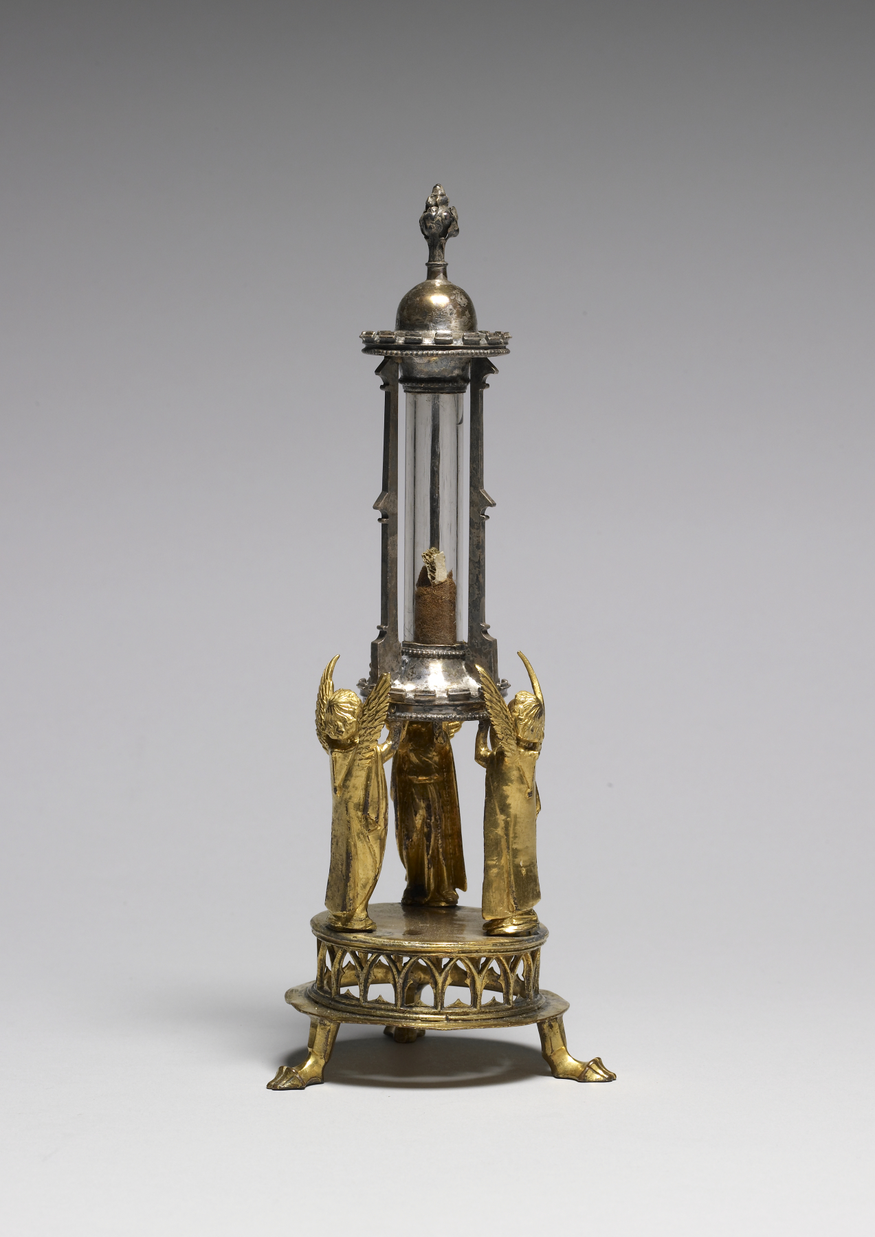 Three angels elevate the hollow glass cylinder of this reliquary, a type of dramatic "display" reliquary that became popular in the late Middle Ages. Inside is the relic of an unknown saint, a small fragment of a bone, possibly from a finger, wrapped in a piece of cloth.